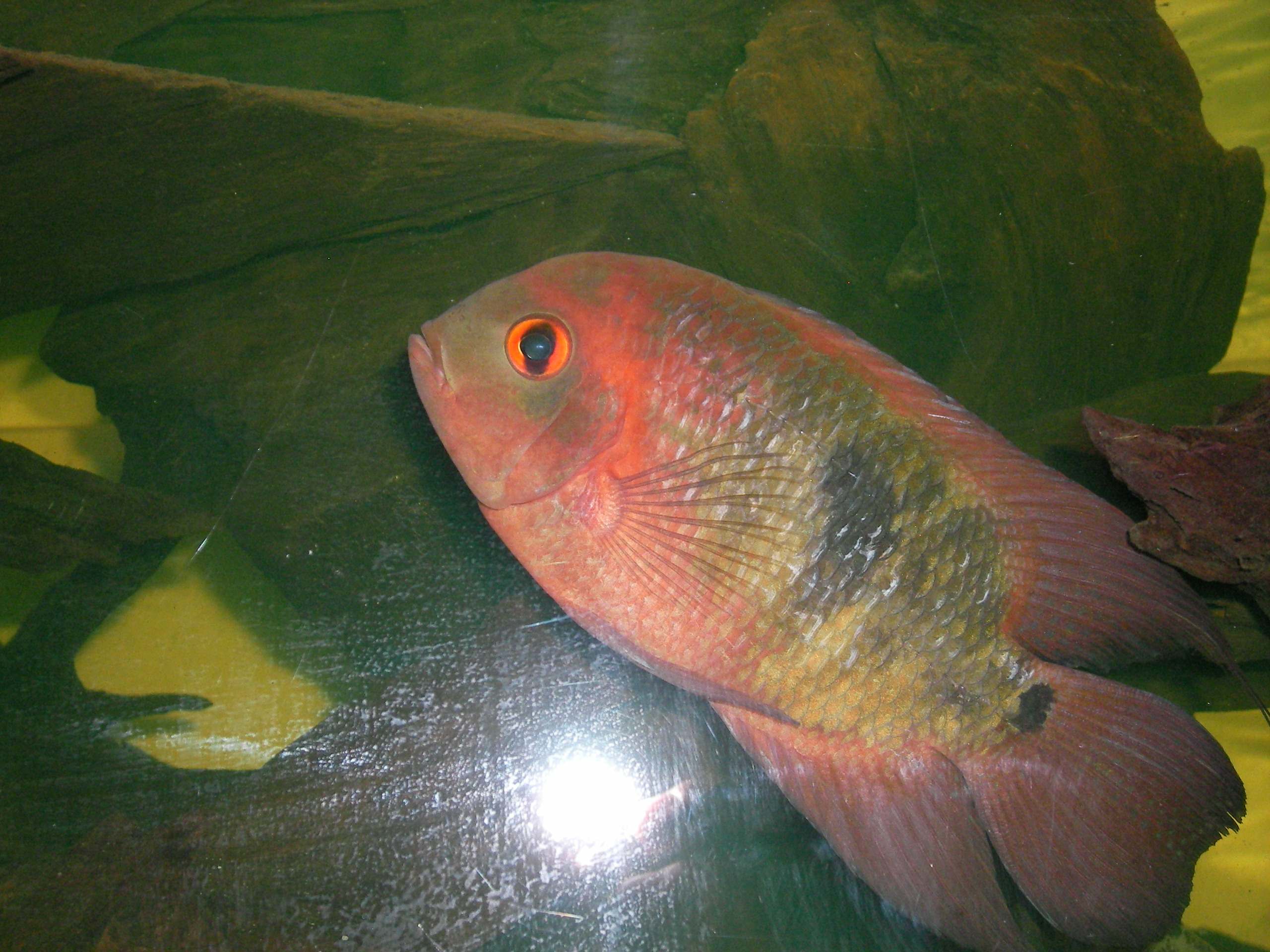 Hypselecara temporalis (Günther 1862)